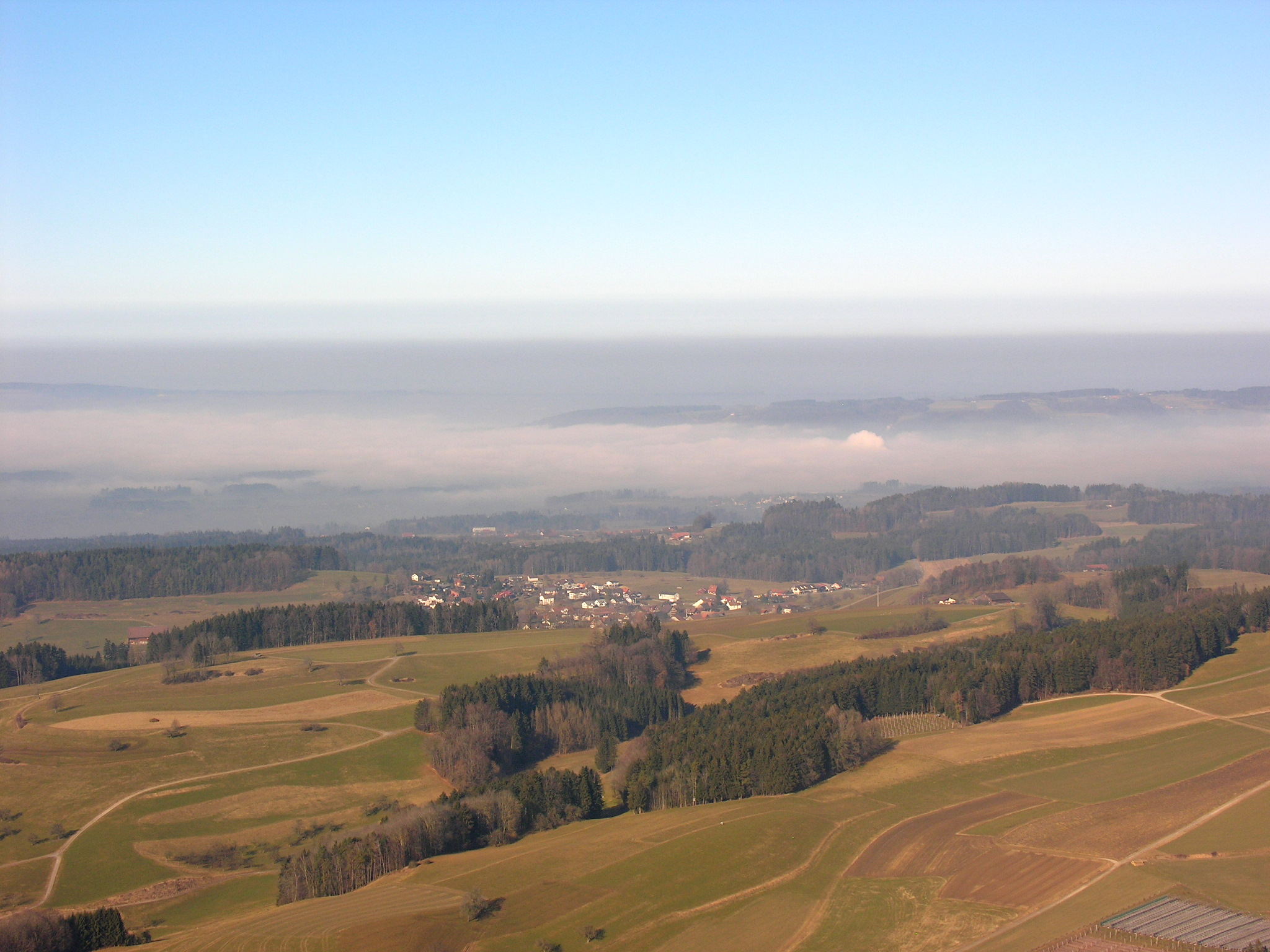 Aerial View overhead Rickenbach